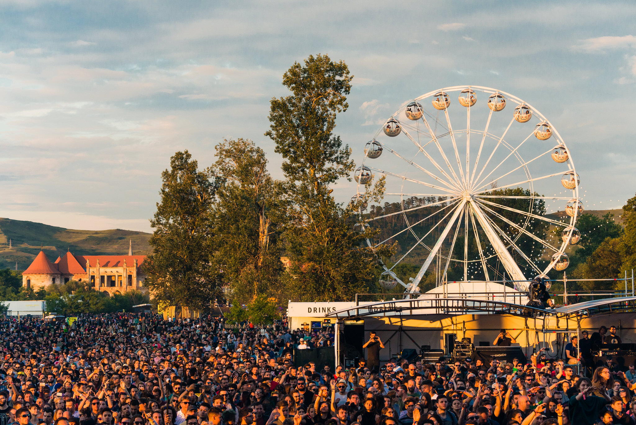 Electric Castle festival, Romania, 2017. Castle and Wheel view